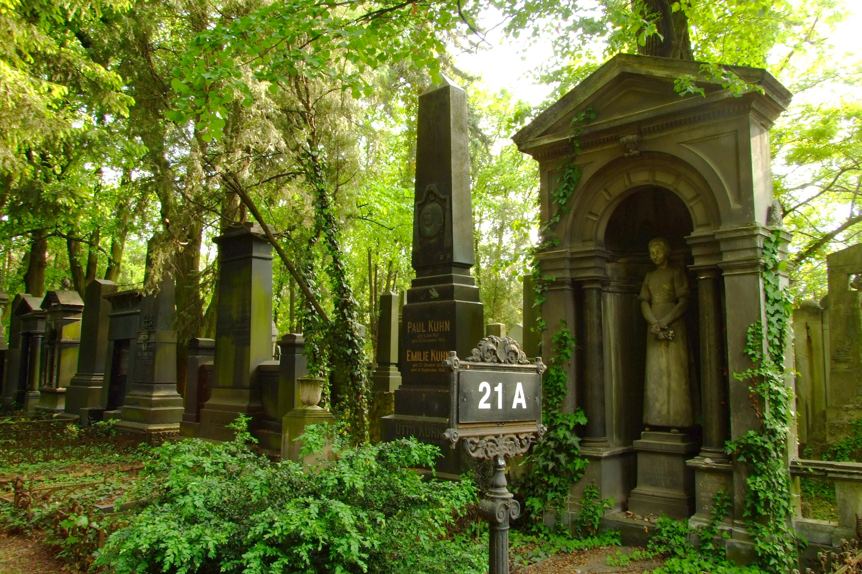 Jewish cemetery in Brno-Židenice